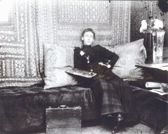 Edith Mitchill Prellwitz in her studio in New York City, c. 1890